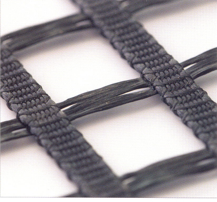 Knitted geogrid made on a special Raschel-machine